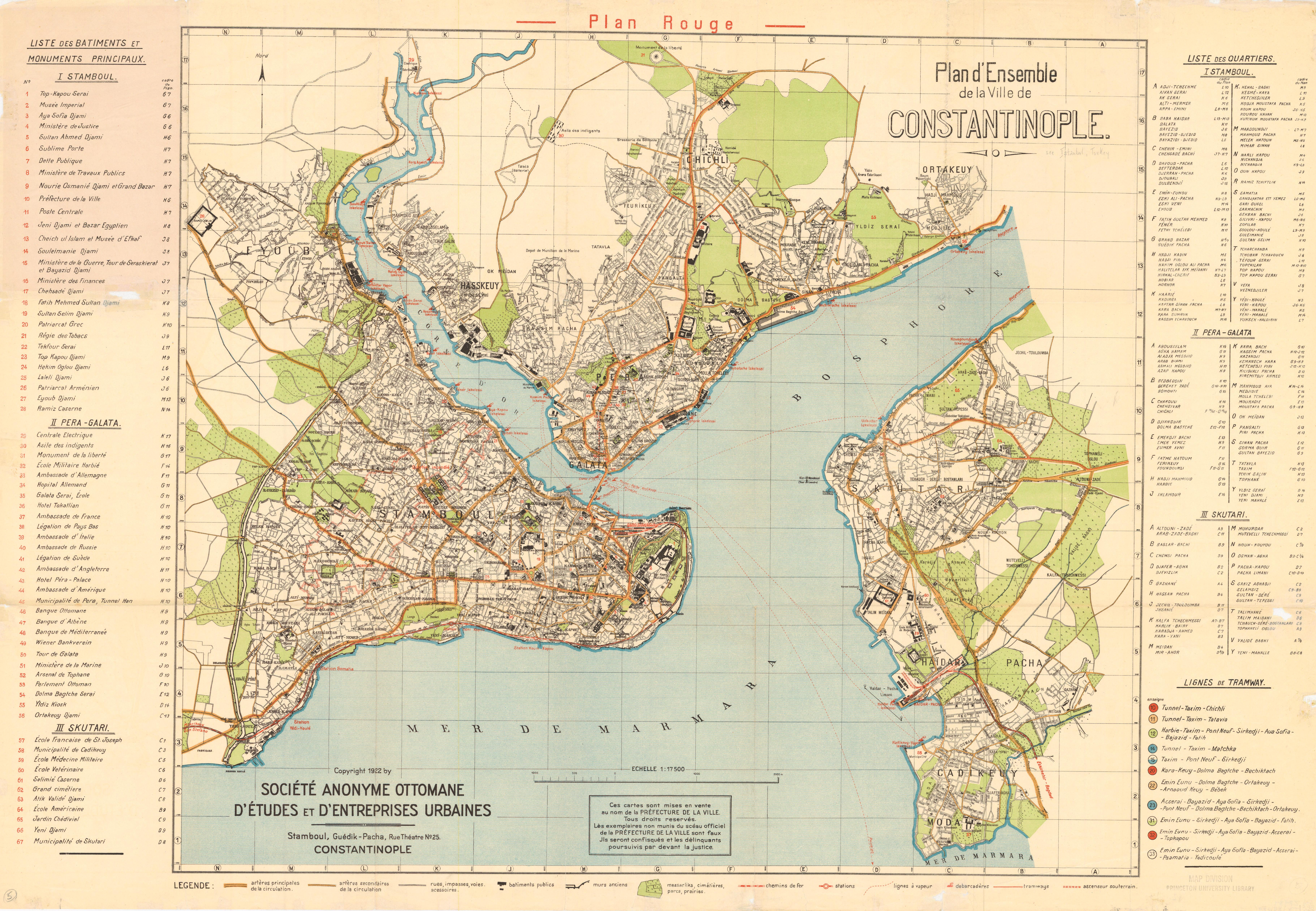 Istanbul city map Title: Plan d'ensemble de la ville de Constantinople. Publisher: Societe anonyme ottomane d'etudes et d'enterprises urbaines PubInfo: 1922 Description: This map was scanned with a Chroma Tx 40 Plus Wide Format color scanner and WIDEimage 2.8 software at 400 DPI in 24-bit color. The image was then reduced to 256 colors and saved in a TIFF file format. Later the TIFF image was compressed by the Mapping Sci